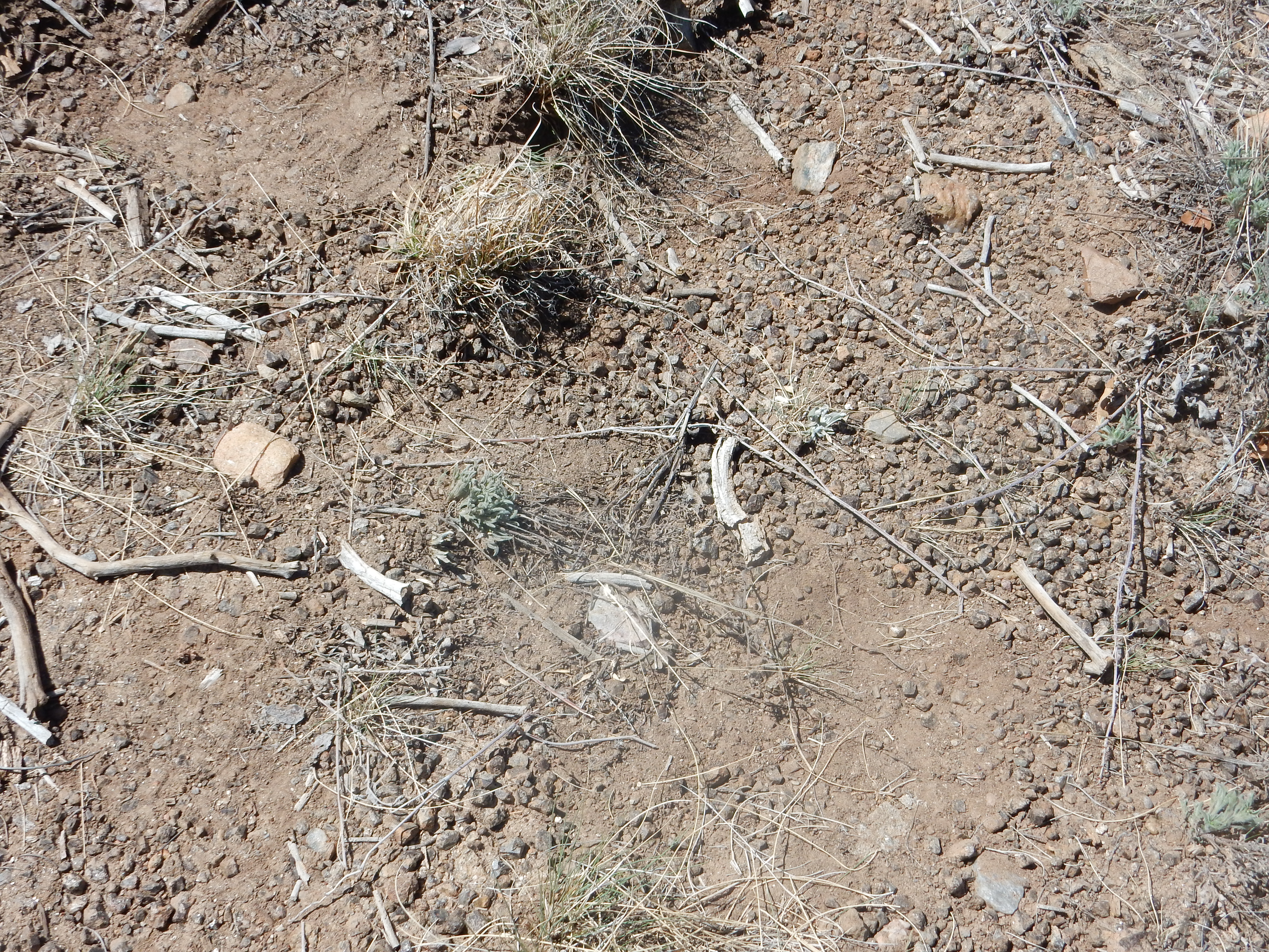 This image shows large crystals of staurolite weathered out of micaceous schist of the Rinconada Formation, near Pilar, New Mexico, United States. The resistant crystals are weathered out of the relatively soft schist in such quantities that they cover the ground as a coarse gravel. Most are 60 degree twins, with some 90 degree twins and a few single crystals.